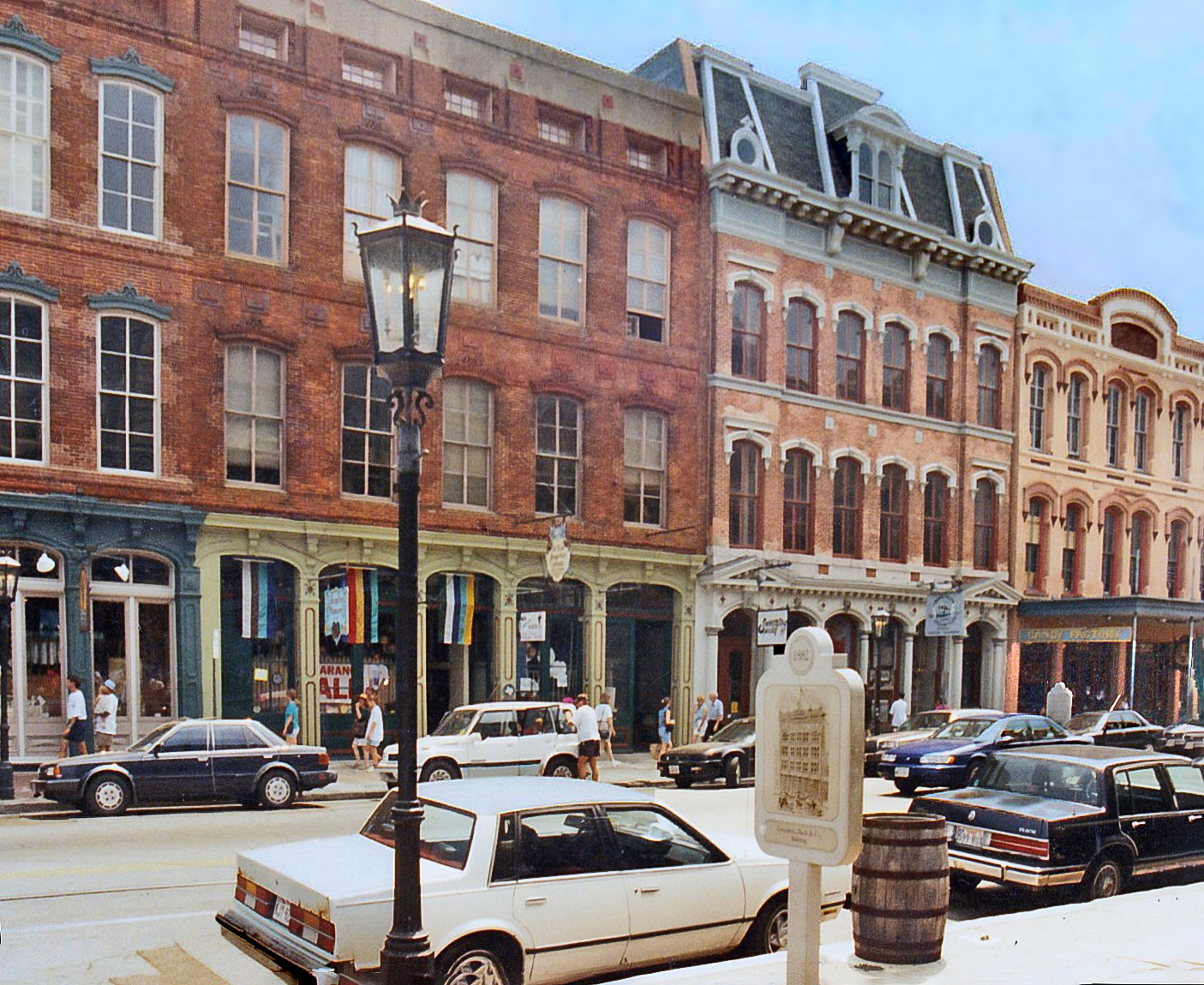 Galveston,Texas,USA.